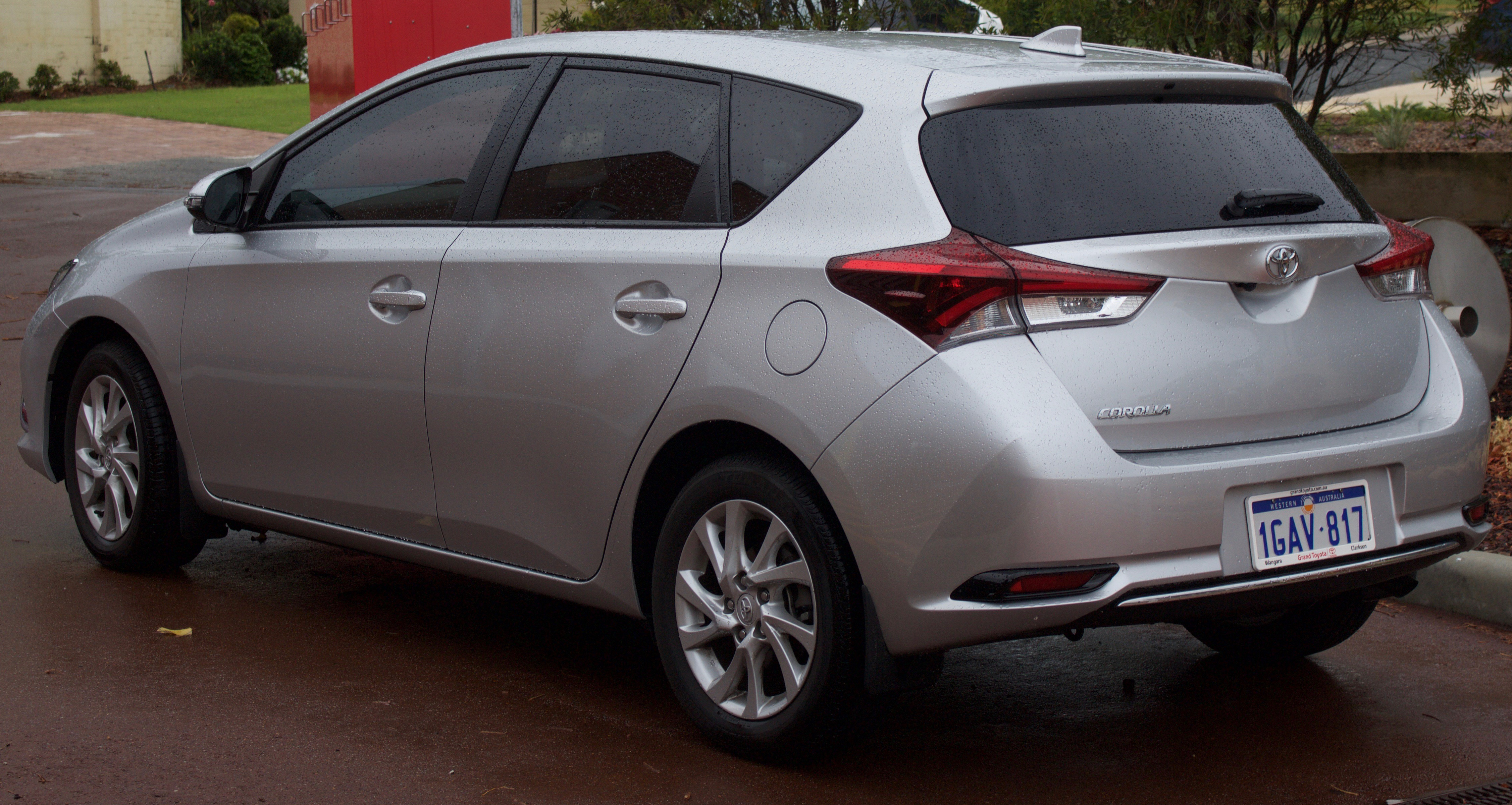 2016 Toyota Corolla (ZRE182R) Ascent Sport hatchback. Photographed in Swanbourne, Western Australia, Australia.